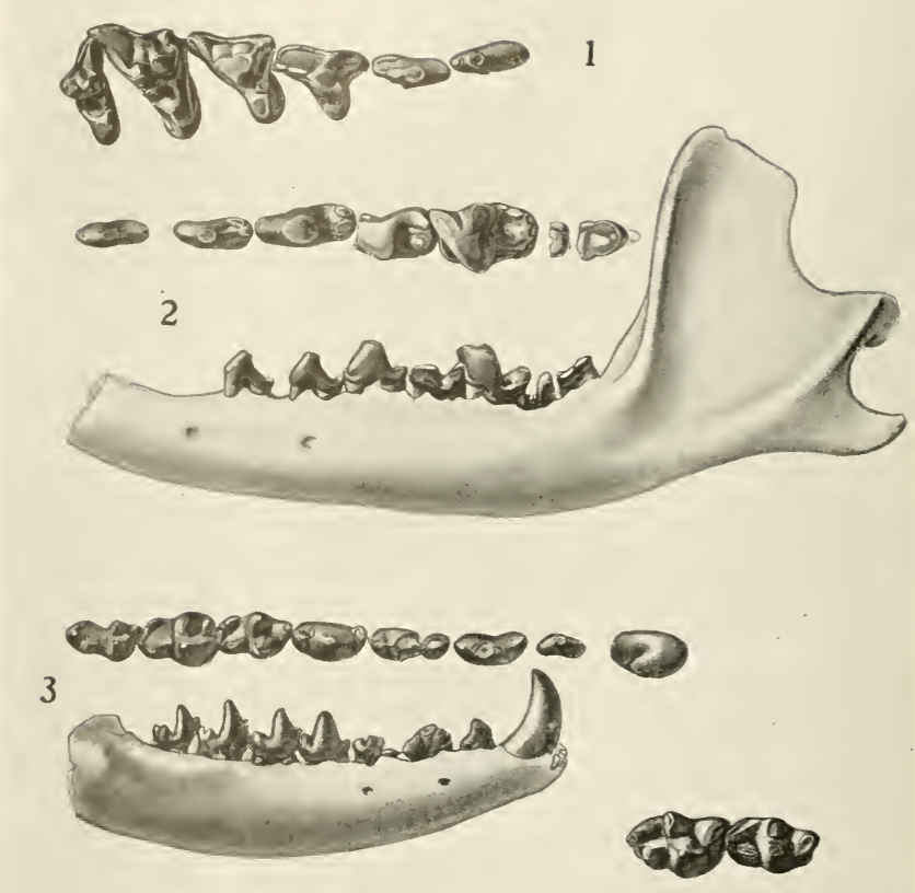 Teeth and mandibles of Sinopa